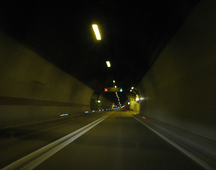 Mala Kapela Tunnel on A1 highway in Croatia